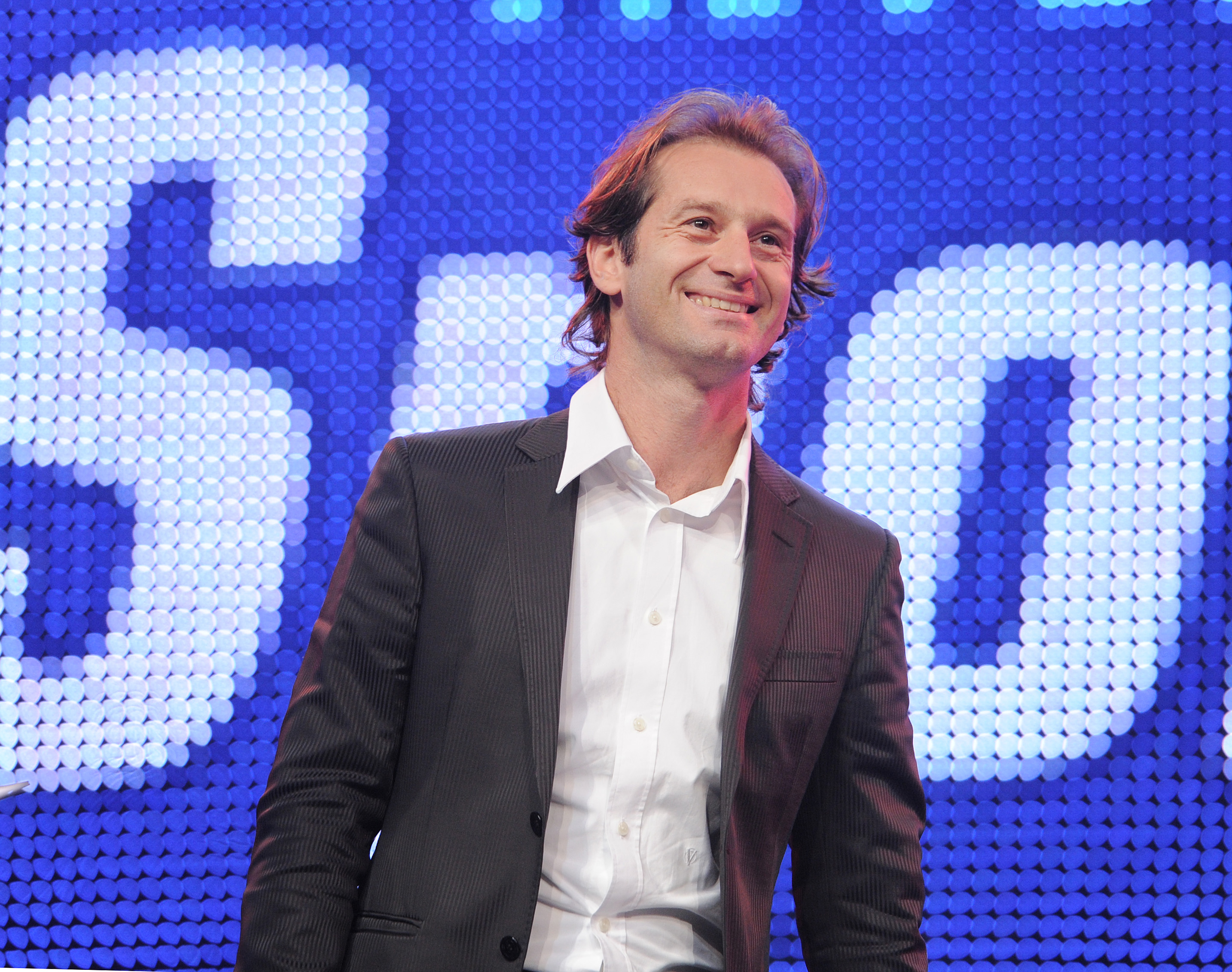 Davos, 03.10.2014. Sport, 12. Internationale Sportnacht Davos 2014.Der ehemalige Formel-1-Pilot Jarno Trulli.. Copyright by: foto-net / Kurt Schorrer